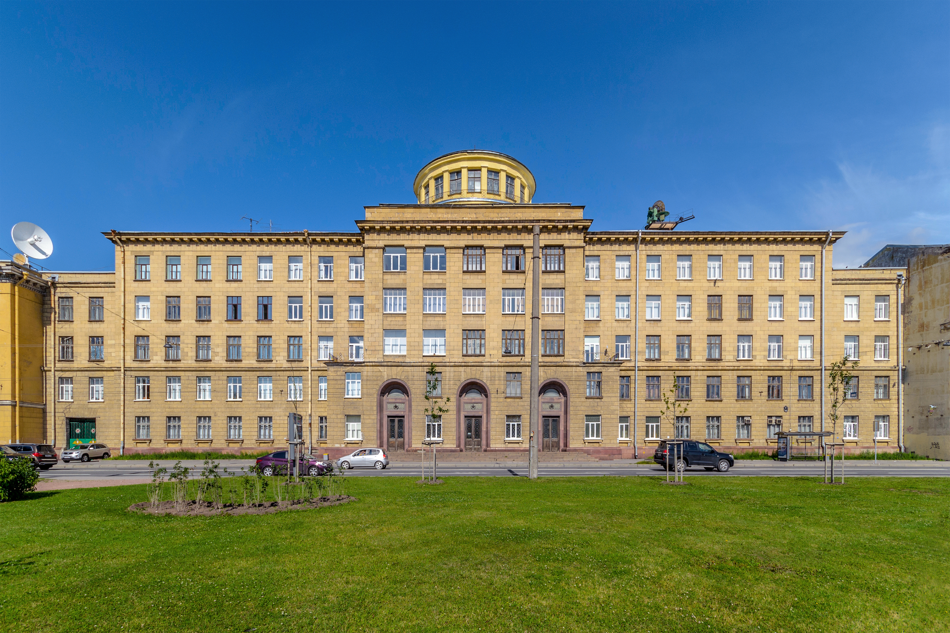 Mozhaisky Military Space Academy at Zhdanovskaya Street in Saint Petersburg